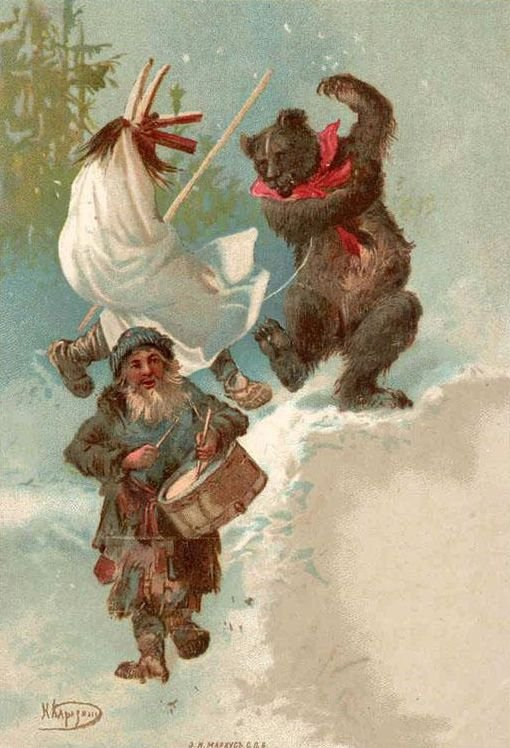 Russian Christmas postcard.